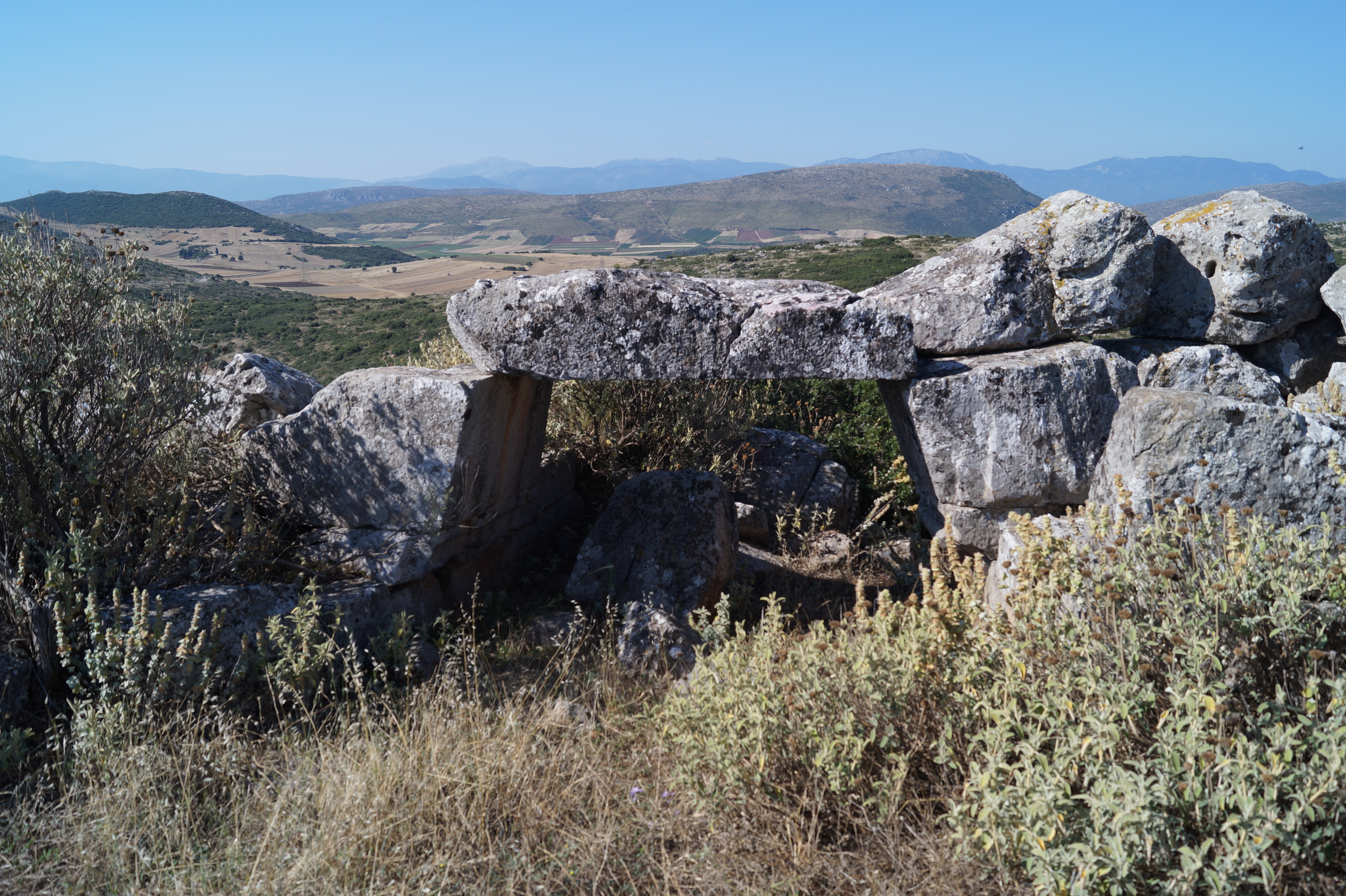 Greece: Ancient city of Abae, gate in the outer wall circuit.